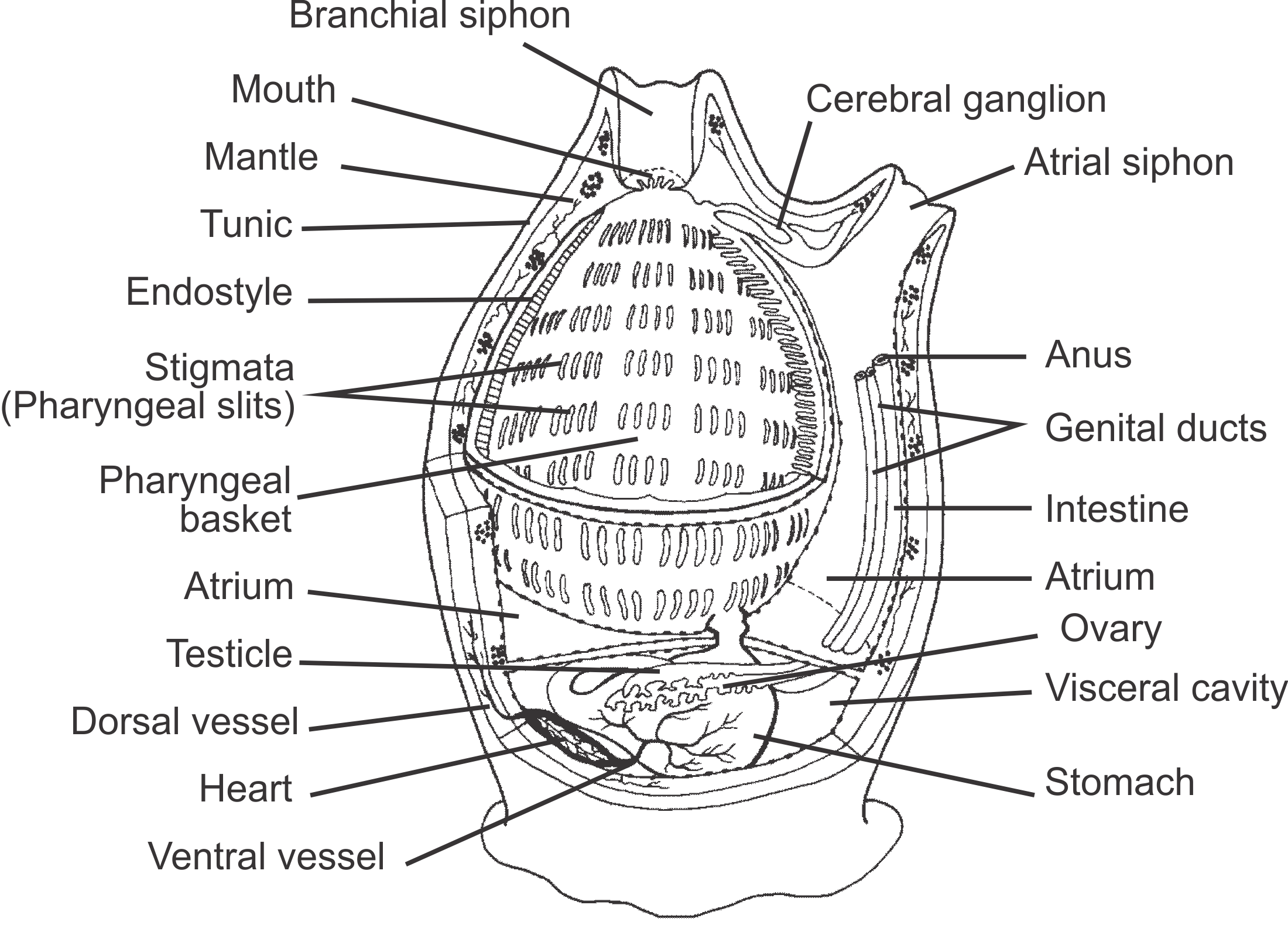 Internal anatomy of a tunicate (Urochordata). Adapted, with permission, from an outline drawing available on BIODIDAC.